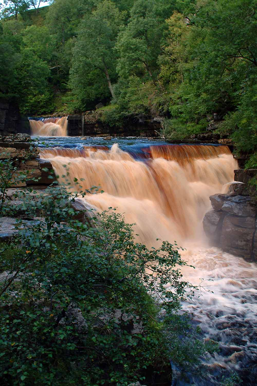 This photo shows Kisdon Force after a night of torrential rain. The route down to the waterfall is quite hard and slippery but worth the view on a good day.